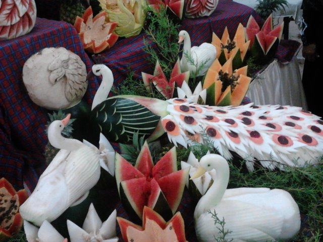 art of vegetable carving.making the shape using vegetables and fruits